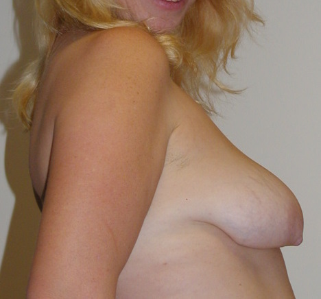 saggy deflated breast , Ptosis Breast